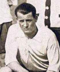 Former football player José Nasazzi, posing with the Uruguay national team at them 1926 South American championship.